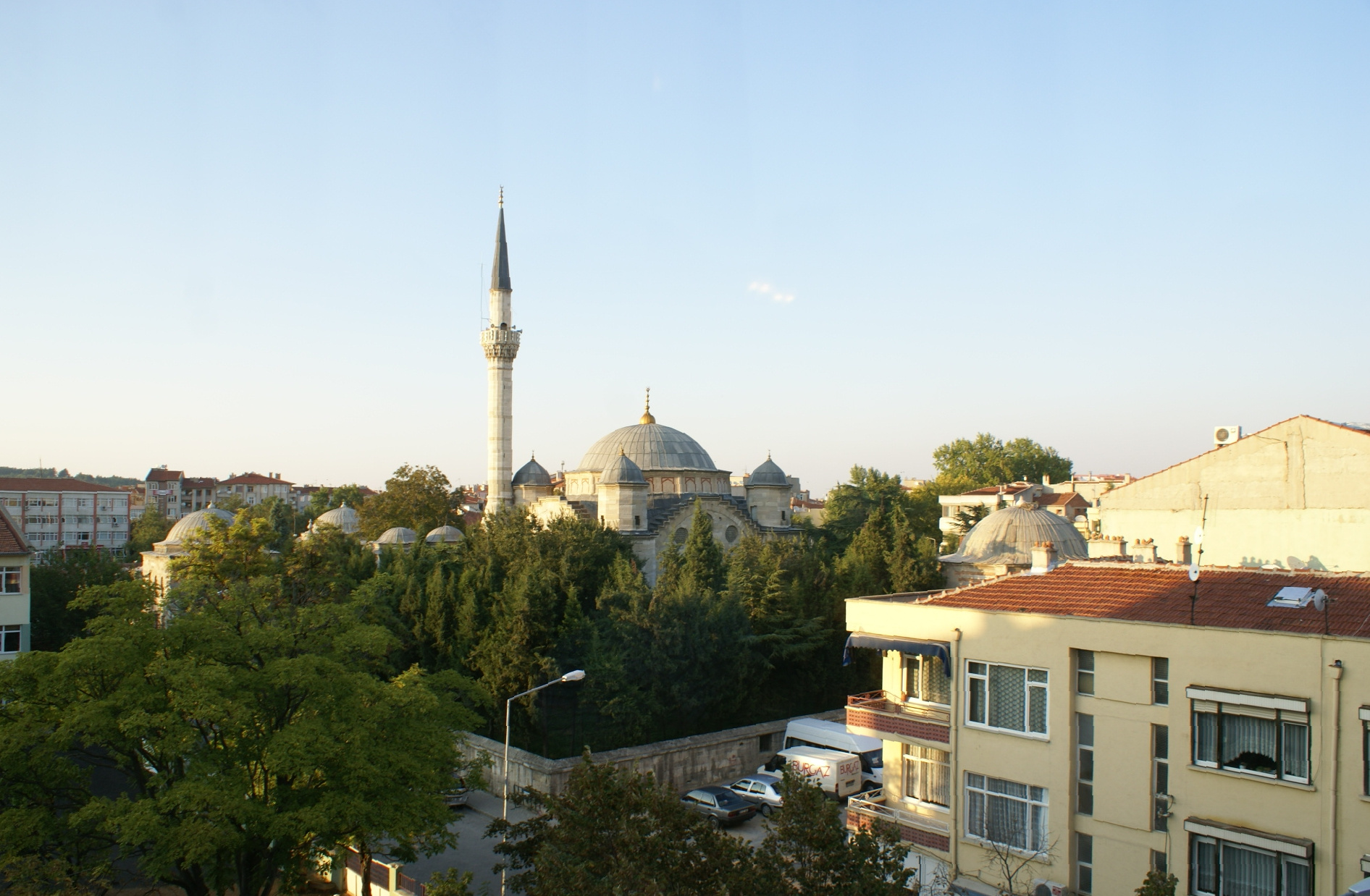 Sokollu Mehmet Pasha (Memorial) Mosque in Luleburgaz, Turkey. Buily by Grand Architect Sinan in 16th Century.